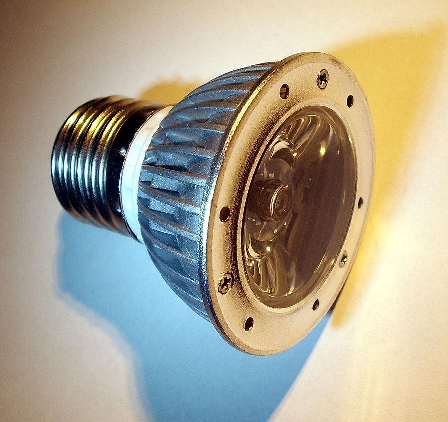 230V E27 3W LED lamp